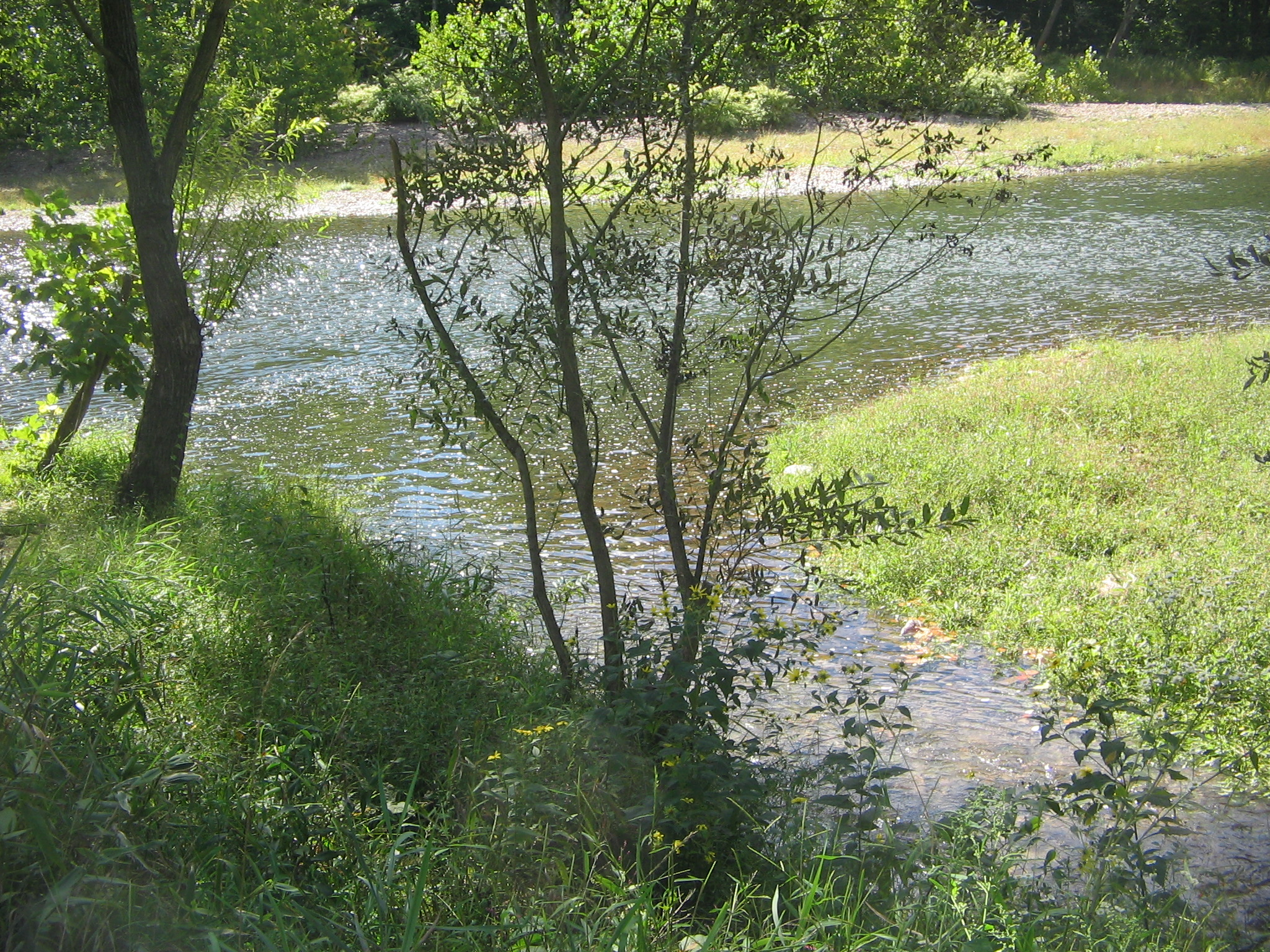 Mouth of Plunketts Creek (and Loyalsock Creek), in Plunketts Creek Township, Pennsylvania, United States